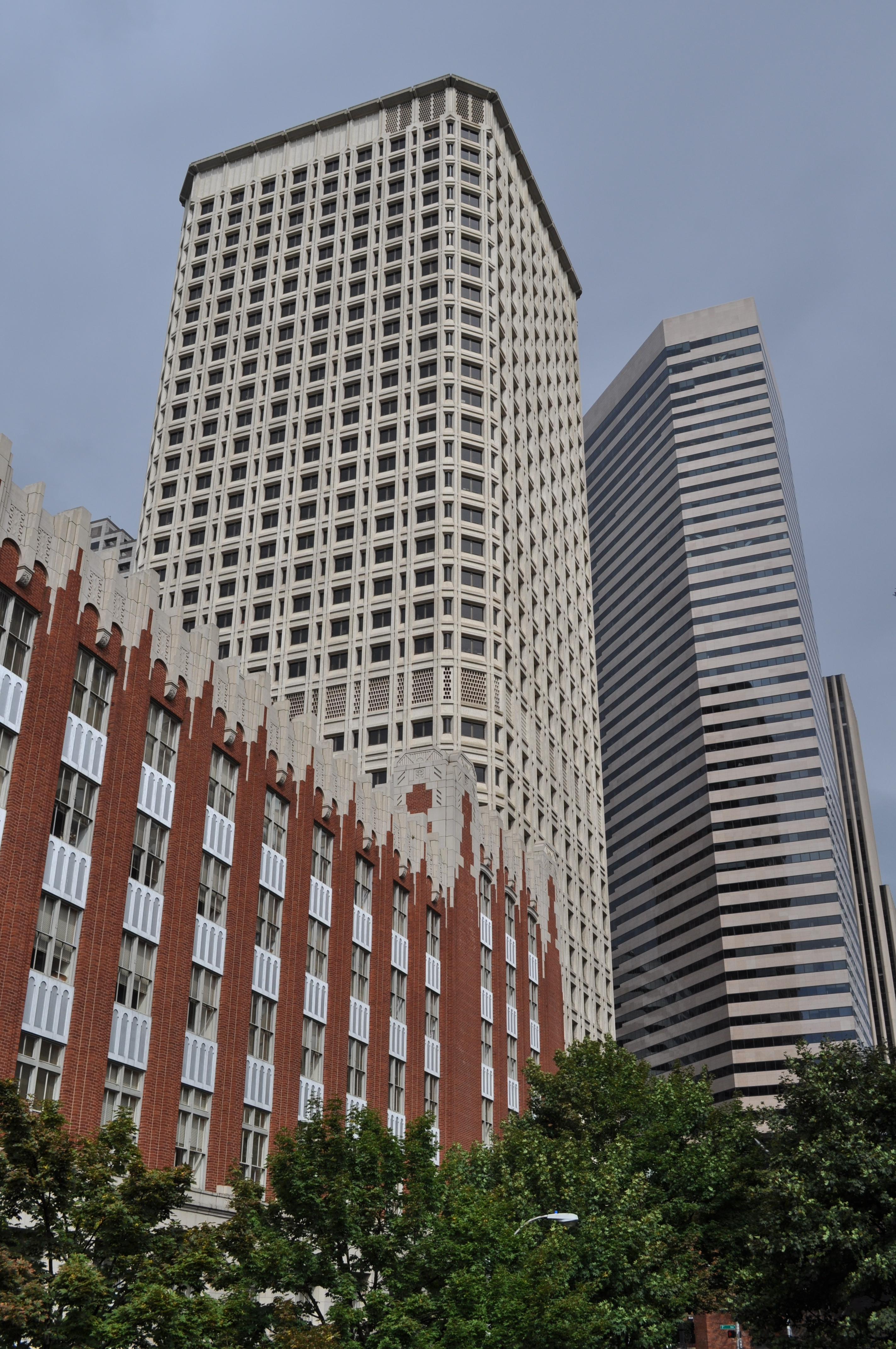 Seattle, Washington, USA. Part of the old Federal Office Building (on the National Register of Historic Places, ID #79003155) in the foreground, and the newer Henry M. Jackson Federal Building in the background. At right is the Wells Fargo Center, formerly First Interstate Center.